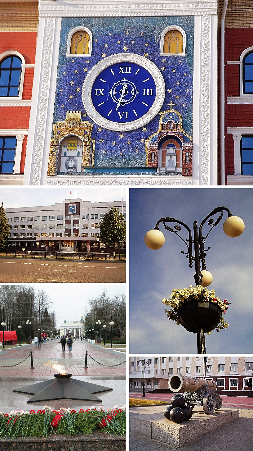 Collage of Yoshkar-Ola (2009)